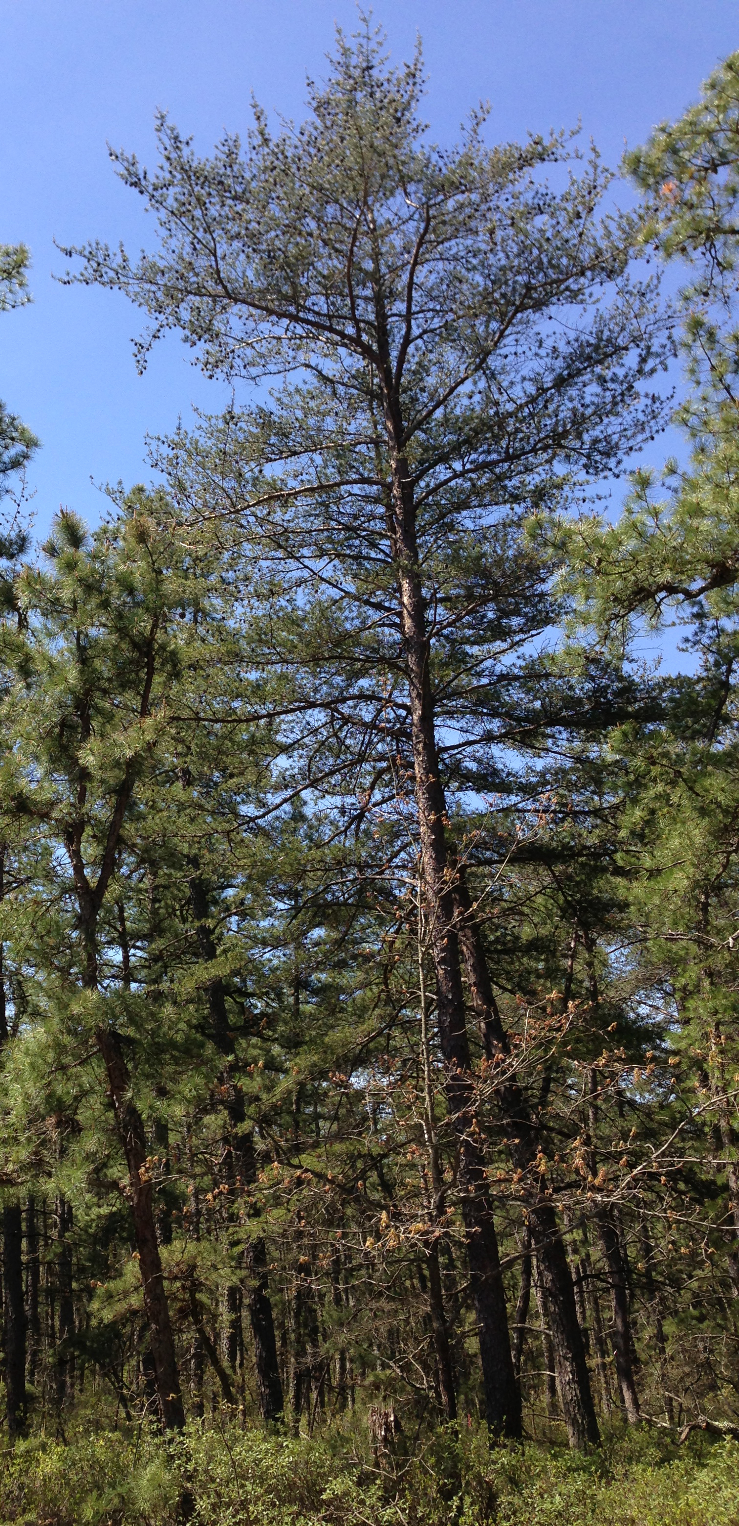 Pinus virginiana (Virginia Pine) along the Mount Misery Trail in Brendan T. Byrne State Forest, New Jersey